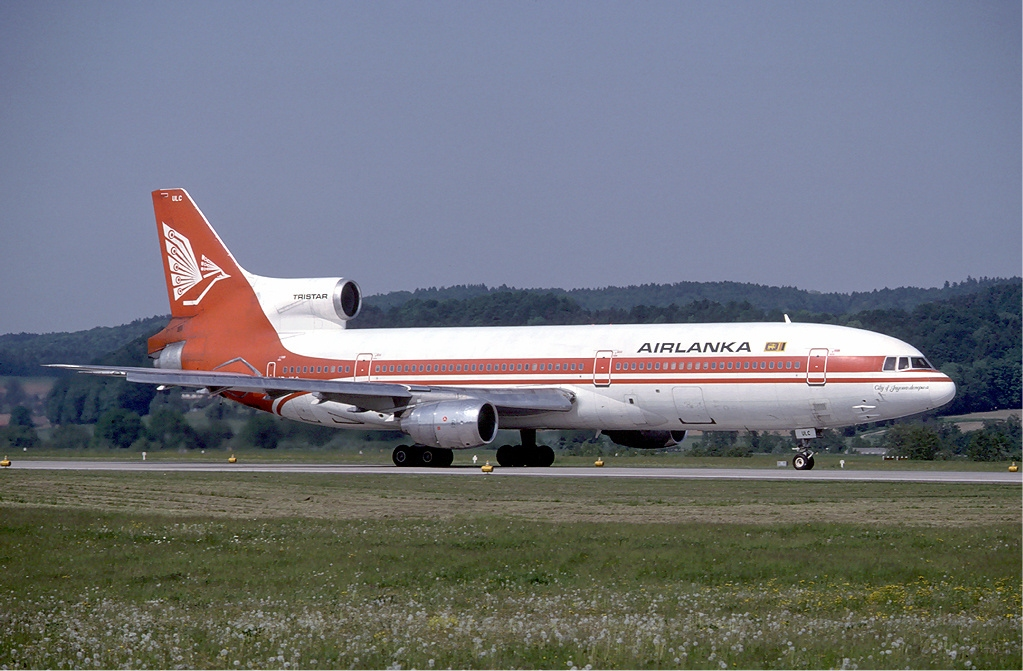 Lockheed Tristar of Airlanka at Zurich Airport